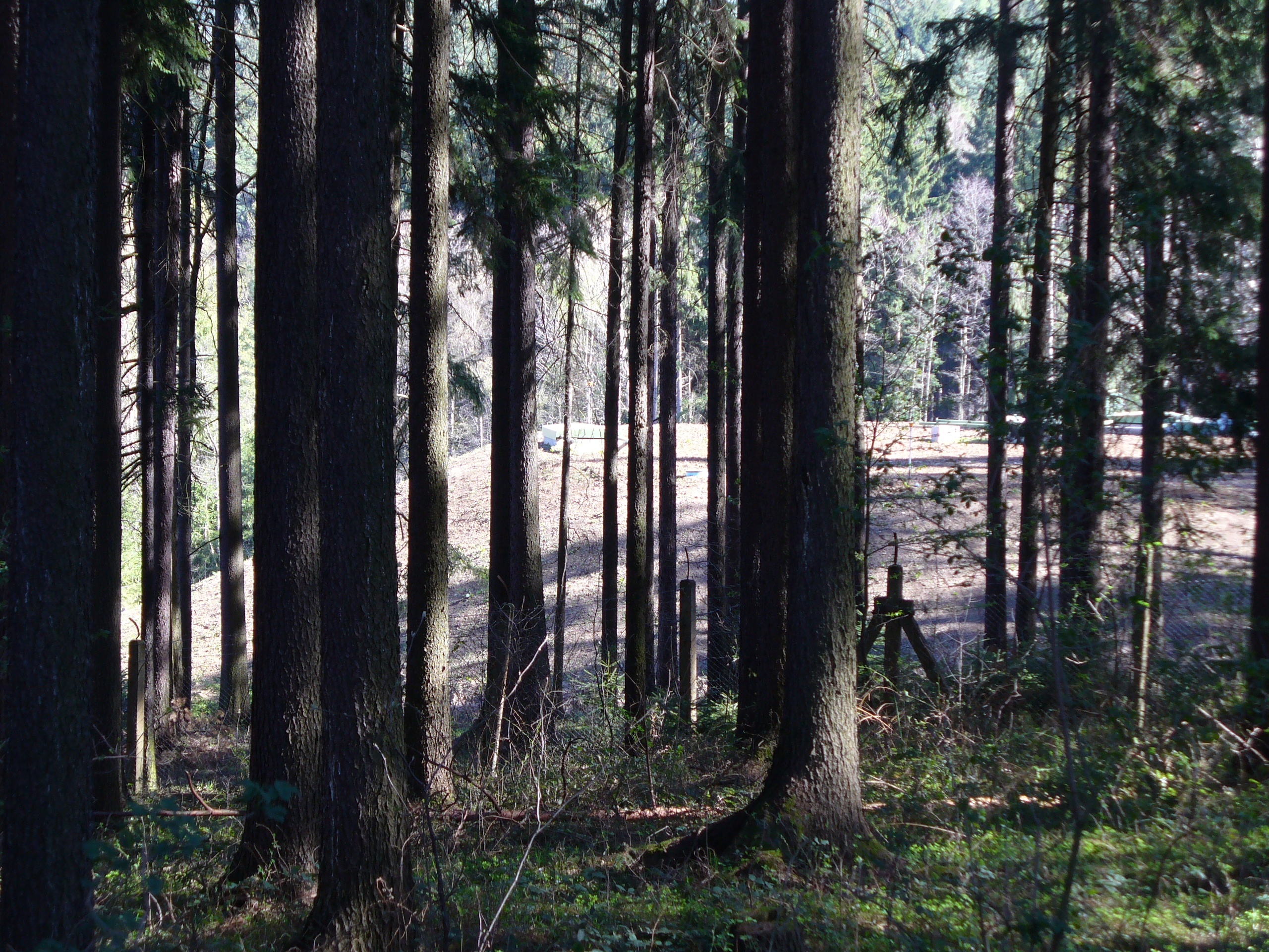 Gass tank emebeded into ground. It has been constructed in 2007 as a part of `Vrbice I' deposit of Administration of State Material Reserves (ASMR)